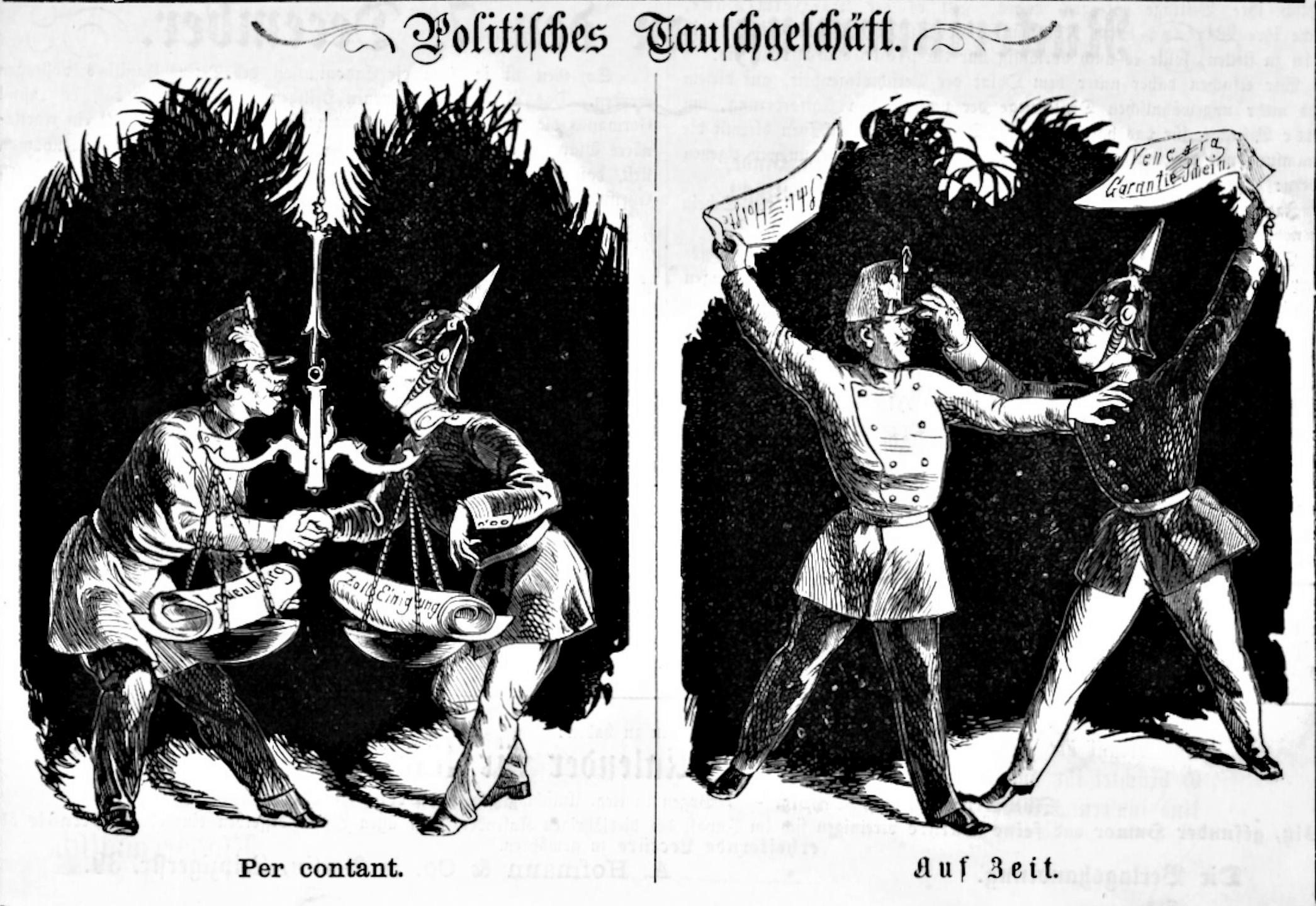 Karikatur, Kladderadatsch